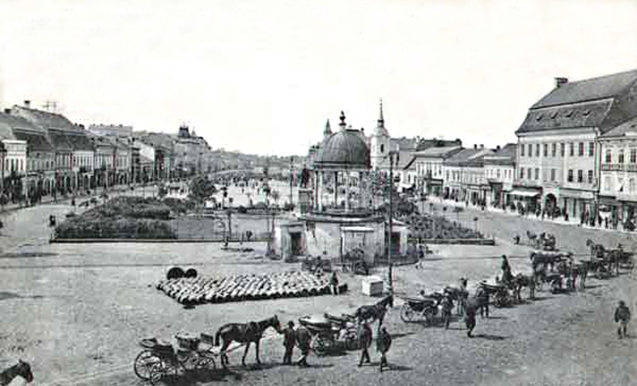 The centre town Square with the musical fountain of Péter Bodor, in 1911.